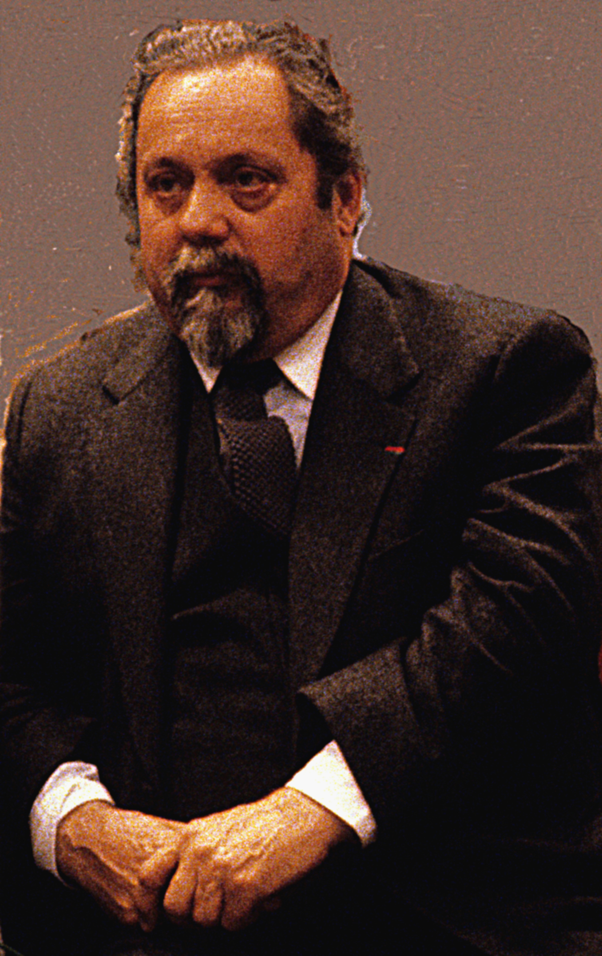 Alain Bombard